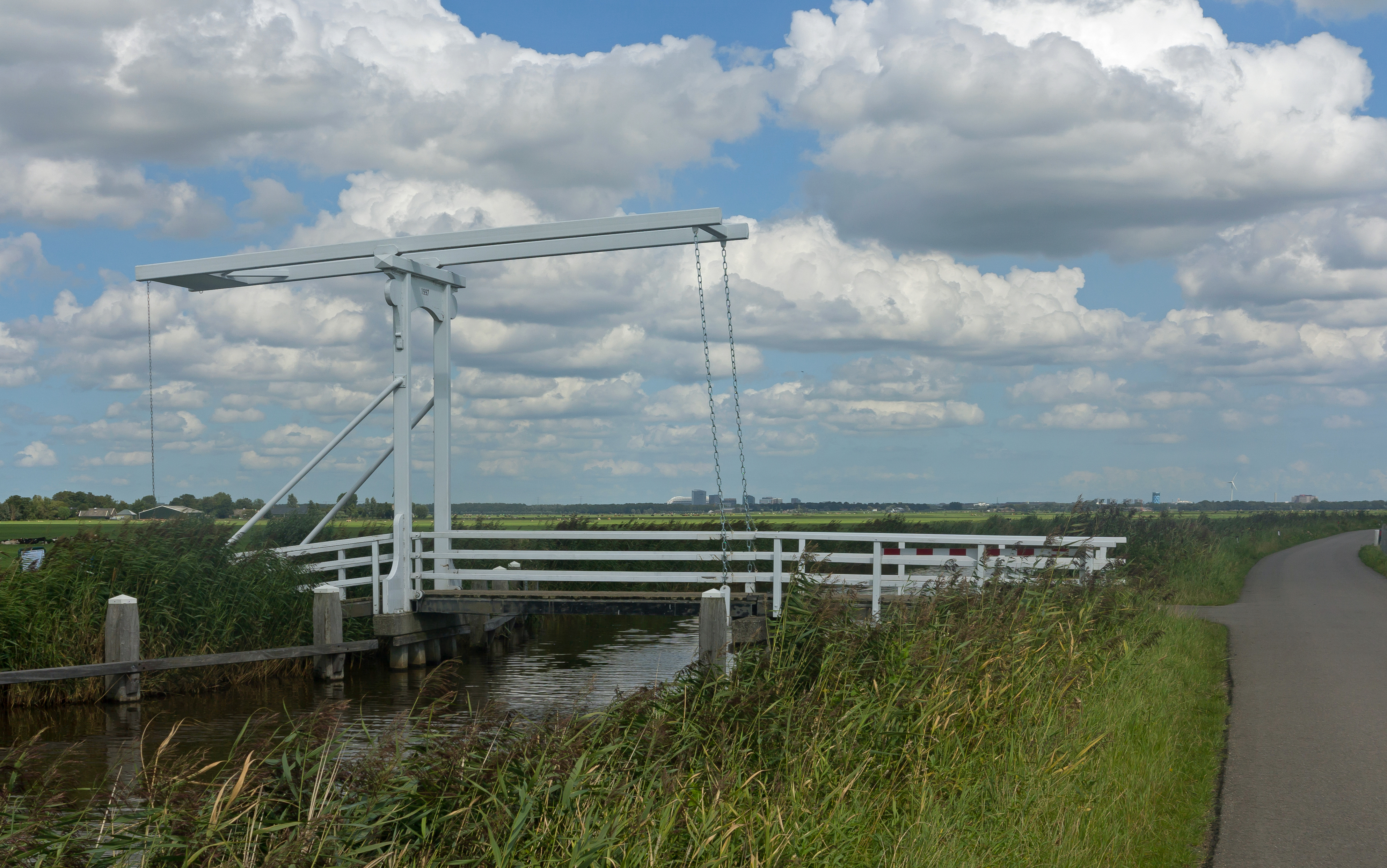 Waver, drawbridge: de Jac C Keabrug